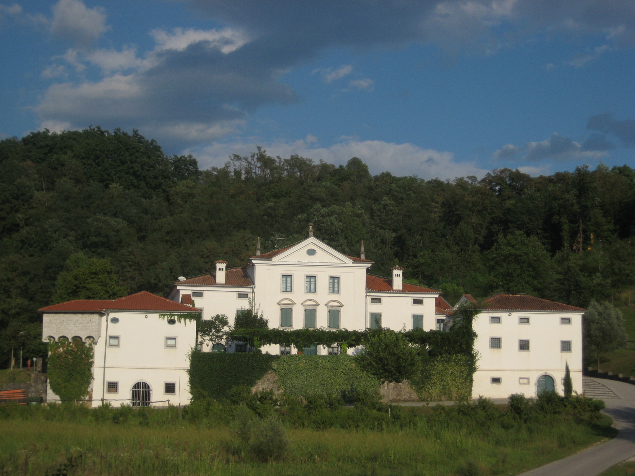 Vogrsko castle